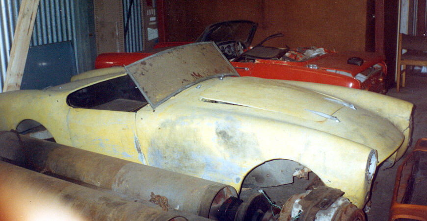 Buchanan Cobra number 1, scanned from photo